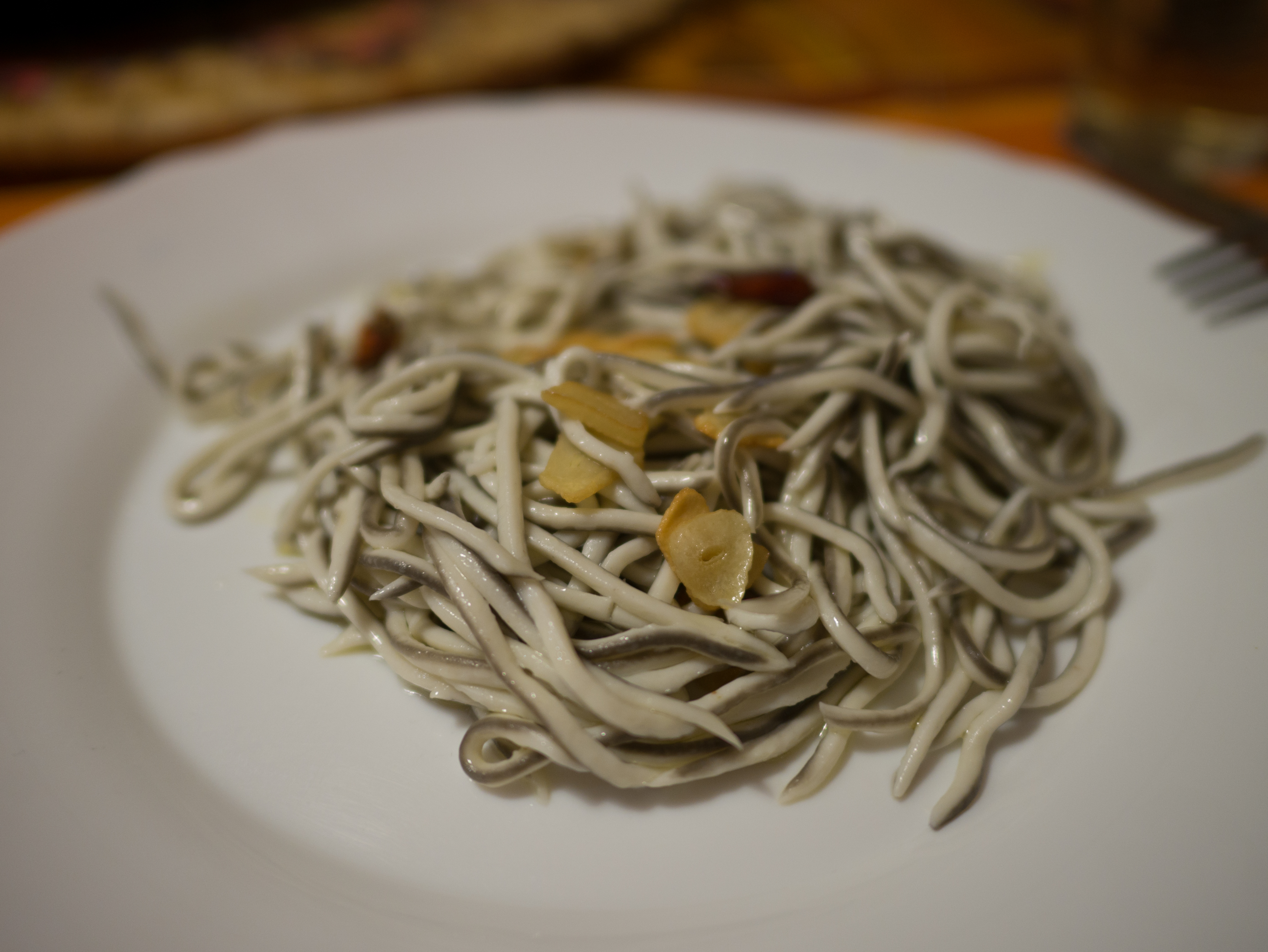 Gulas (Surimi mockup of glass eels/elvers), with garlic and chili peppers, a dish of the Basque cuisine